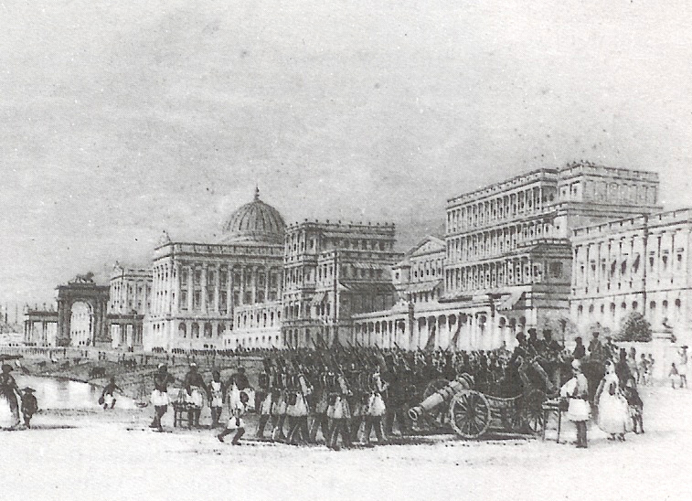 The Esplanade neighborhood in Kolkata, India.